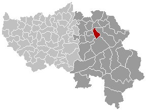 Map, municipality belgium Limbourg